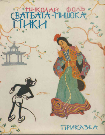 Cover of the book "Mickey Mouse Wedding" (1935) by Nikolai Fall